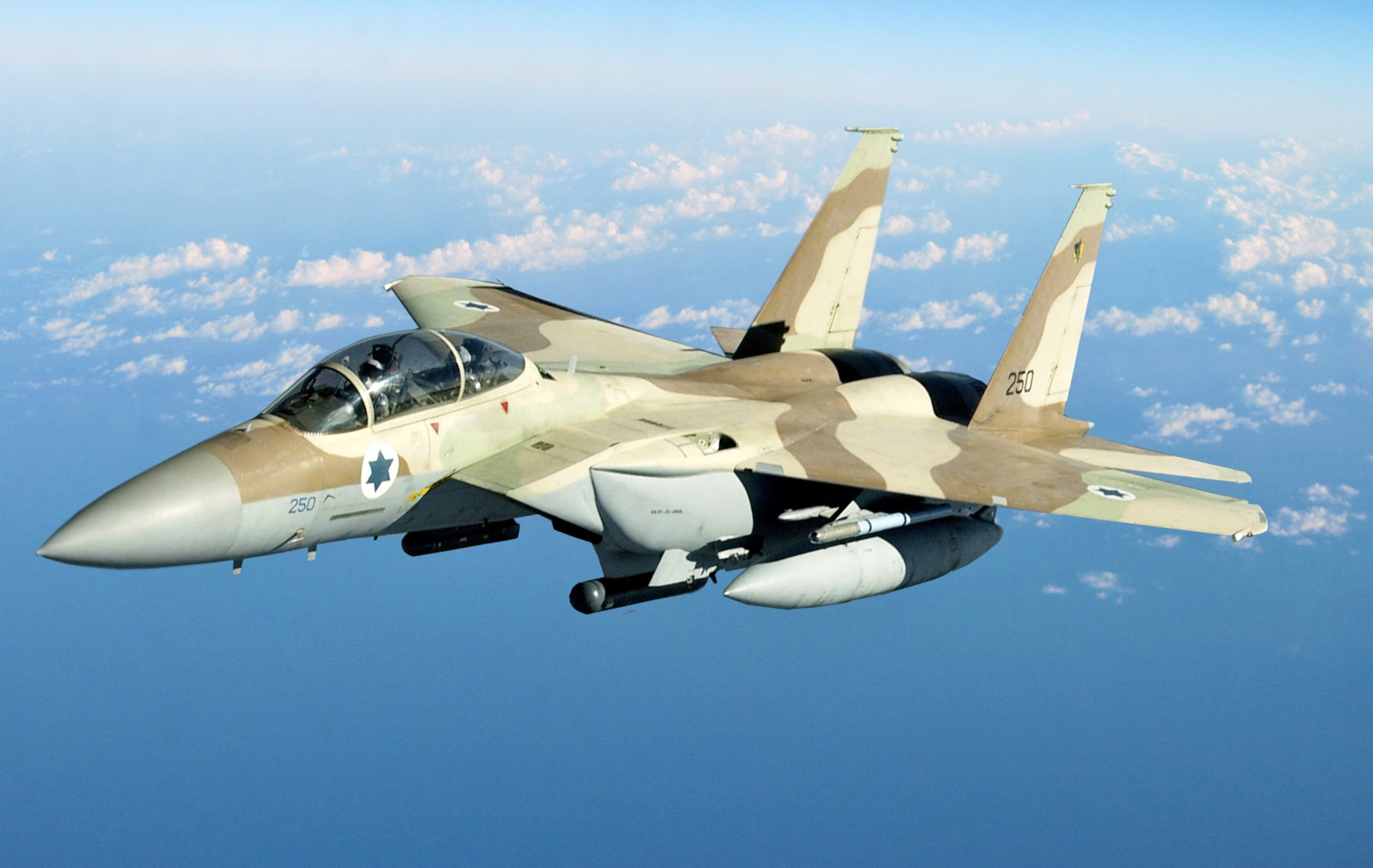 Israeli Defense Force-Air Force F-15I Ra'am aircraft